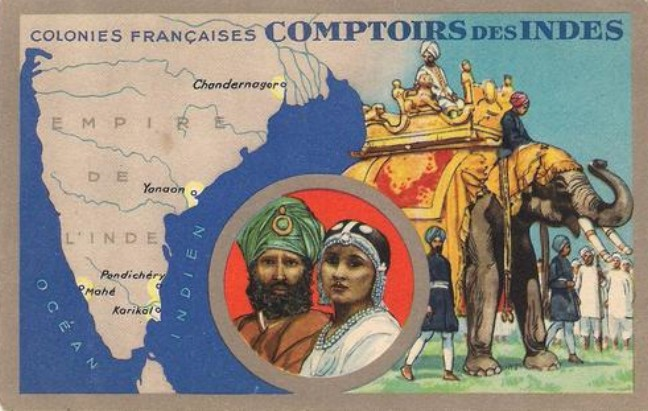 French India (commonly called Comptoirs des Indes) collectible card. Part of a series on French colonies issued in the 1920s. On the reverse, it is said that "Lost in the midst of the vast British domain, these ports are nearly worthless. They are treasured by France for their sentimental value."